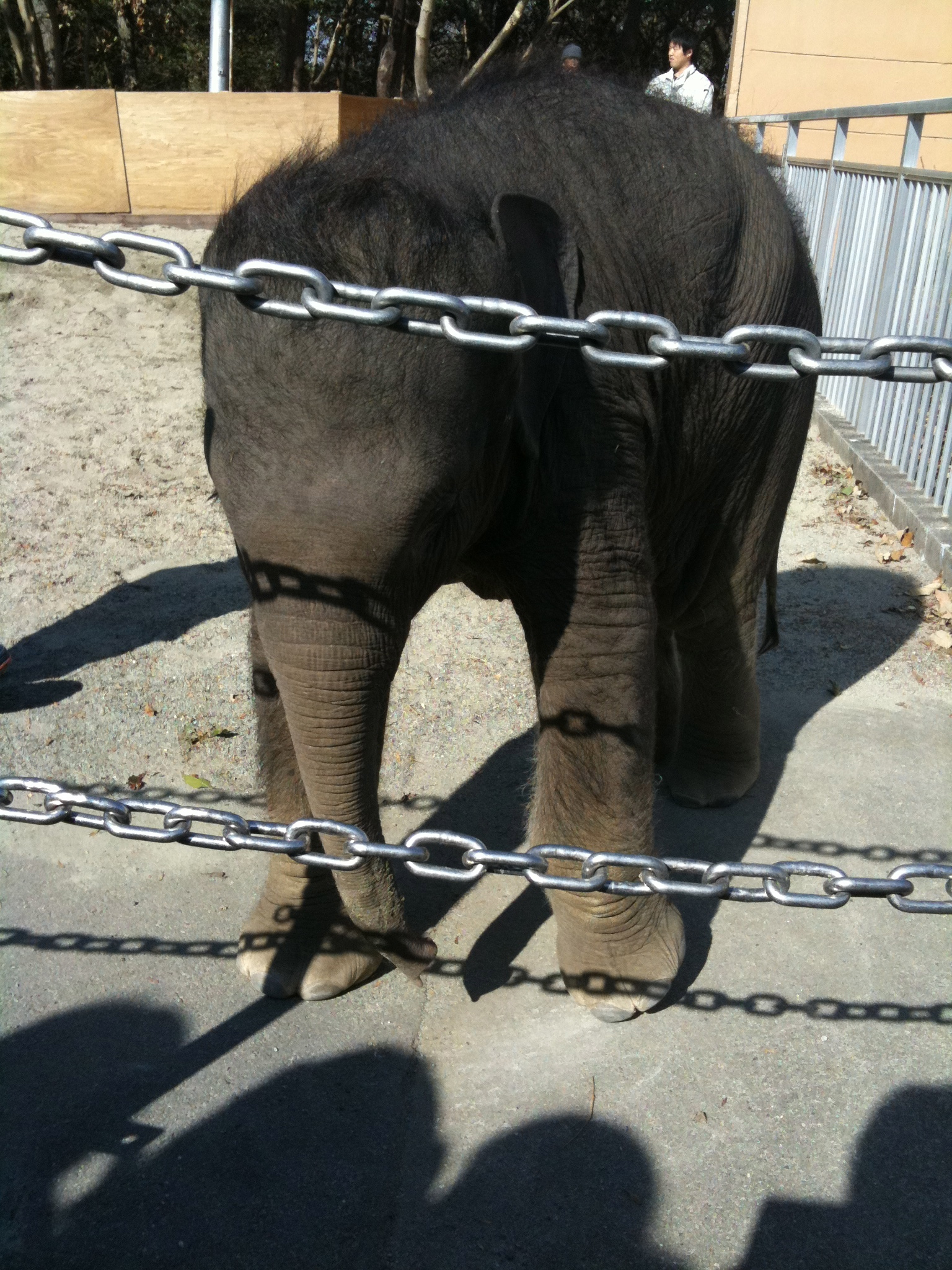 Mara, Baby Elephant at Toyohashi zoo in Japan 2012-1-29